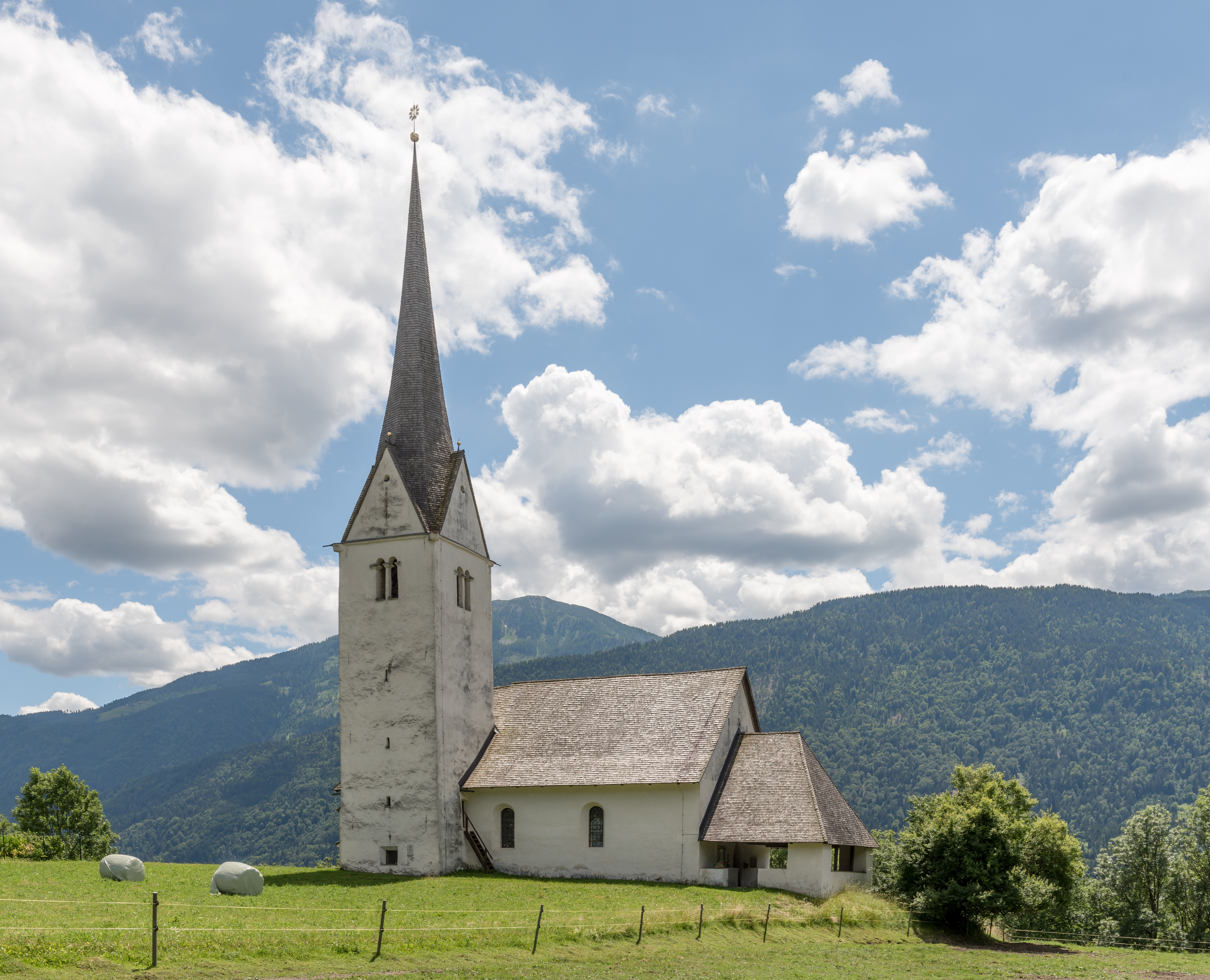 Northwestern view of the subsidiary church Saint Henry the Emperor in Görtschach, municipality Hermagor-Pressegger See, district Hermagor, Carinthia, Austria, EU